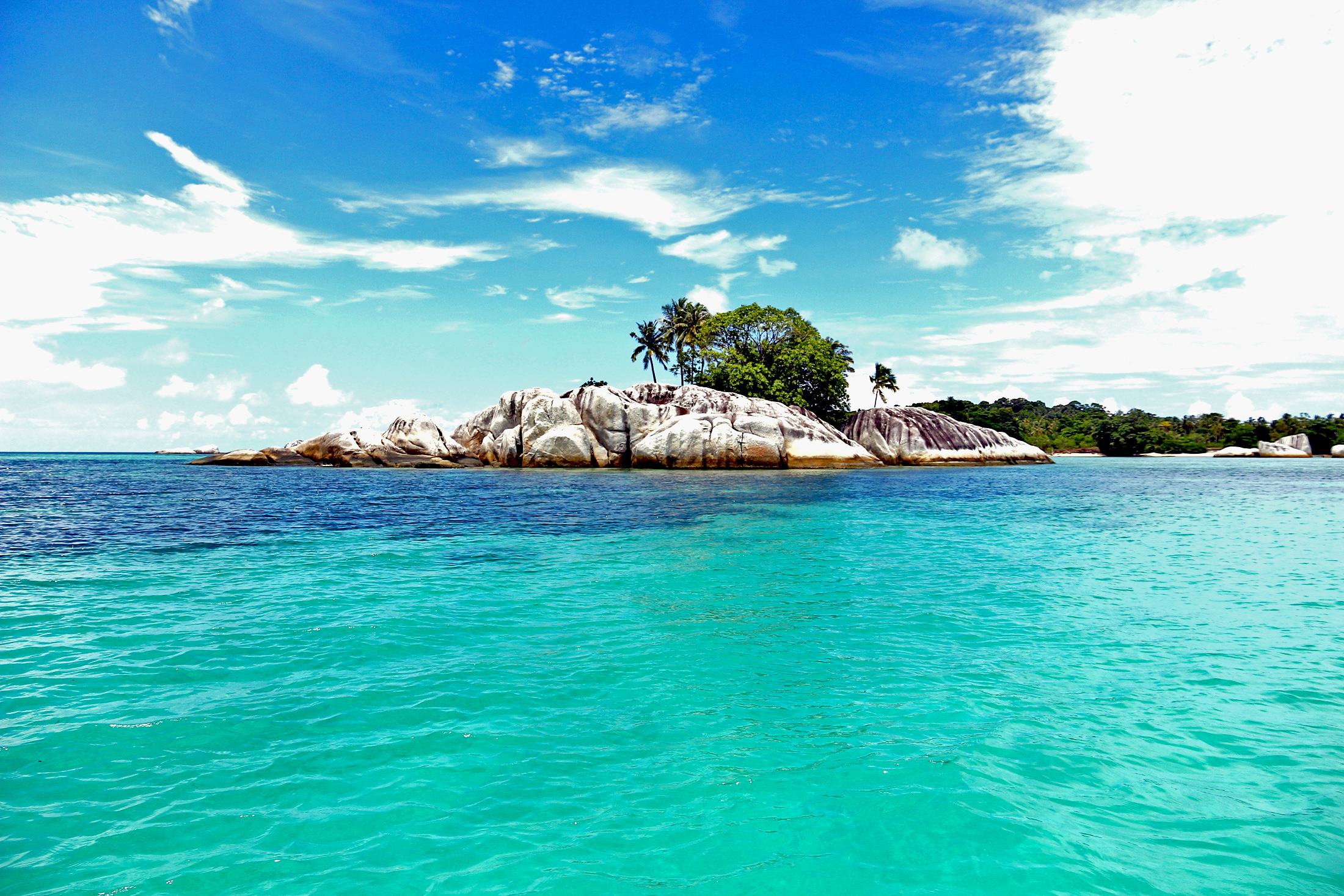 Asia-tropical-island-exotic-paradise-turquoise-ocean-sea-empty-holidays-tiket2